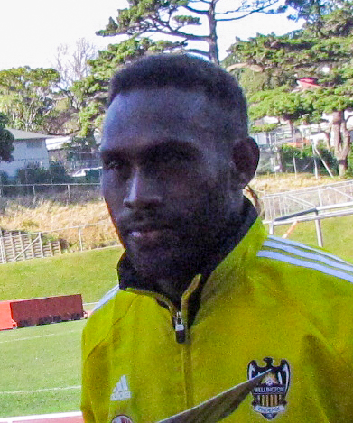 Benjamin Totori at Wellington Phoenix in July 2012